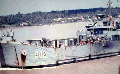 USS Luzerne County (LST-902) underway on the Mekong River, Vietnam, 1968. Official US Navy photograph taken from